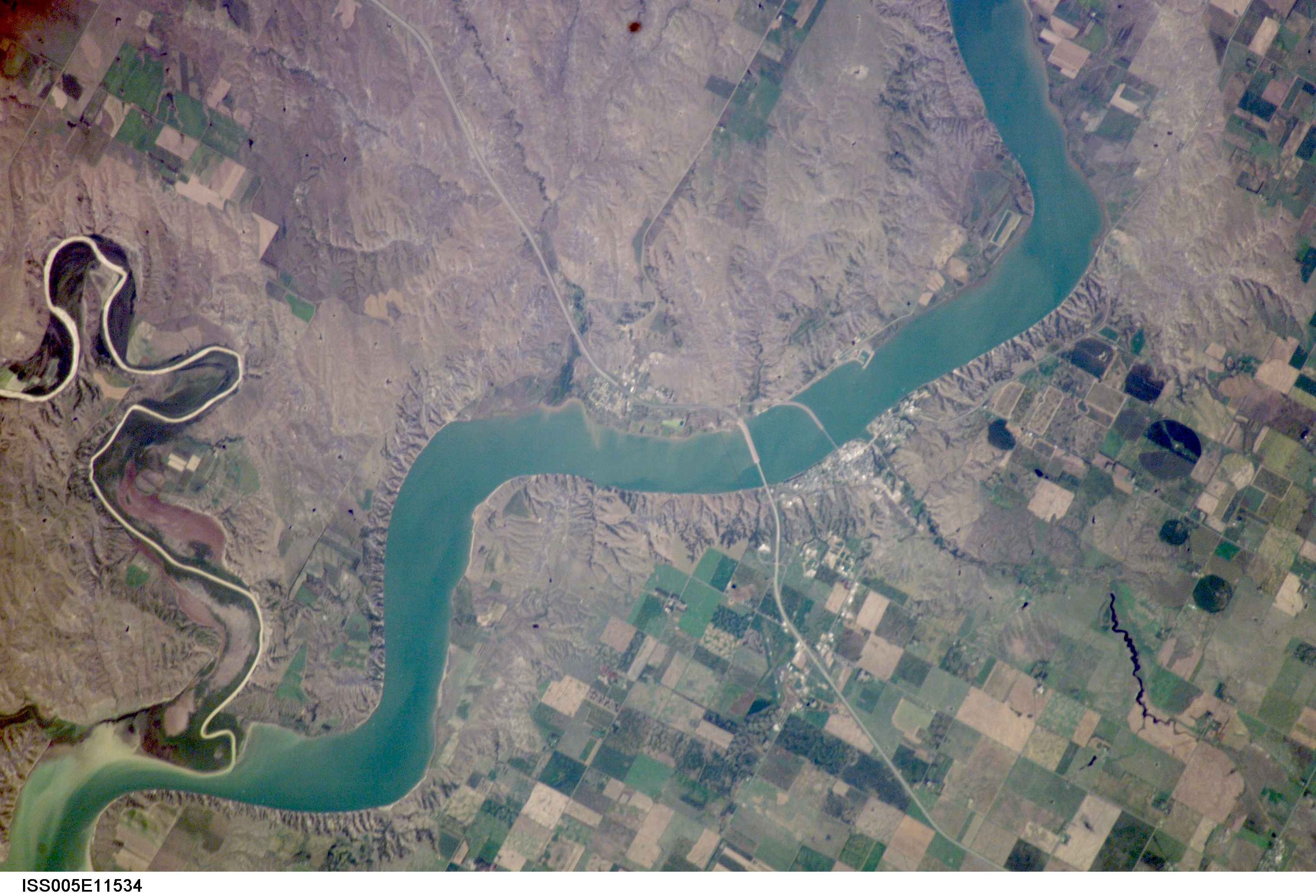 NASA astronaut image of the mouth of the White River and Missouri River in the U.S. state of Dakota. Original caption: Mission: ISS005 Roll: E Frame: 11534 Mission ID on the Film or image: ISS005 Country or Geographic Name: USA-SOUTH DAKOTA Features: MISSOURI RIVER, WHITE RIVER Center Point Latitude: 43.5 Center Point Longitude: -99.5 (Negative numbers indicate south for latitude and west for longitude)